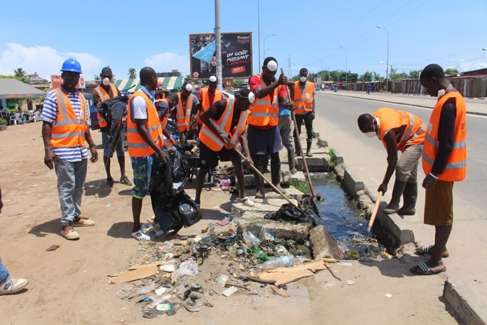 This is an image with the theme "Africa on the Move or Transport" from: Ivory Coast